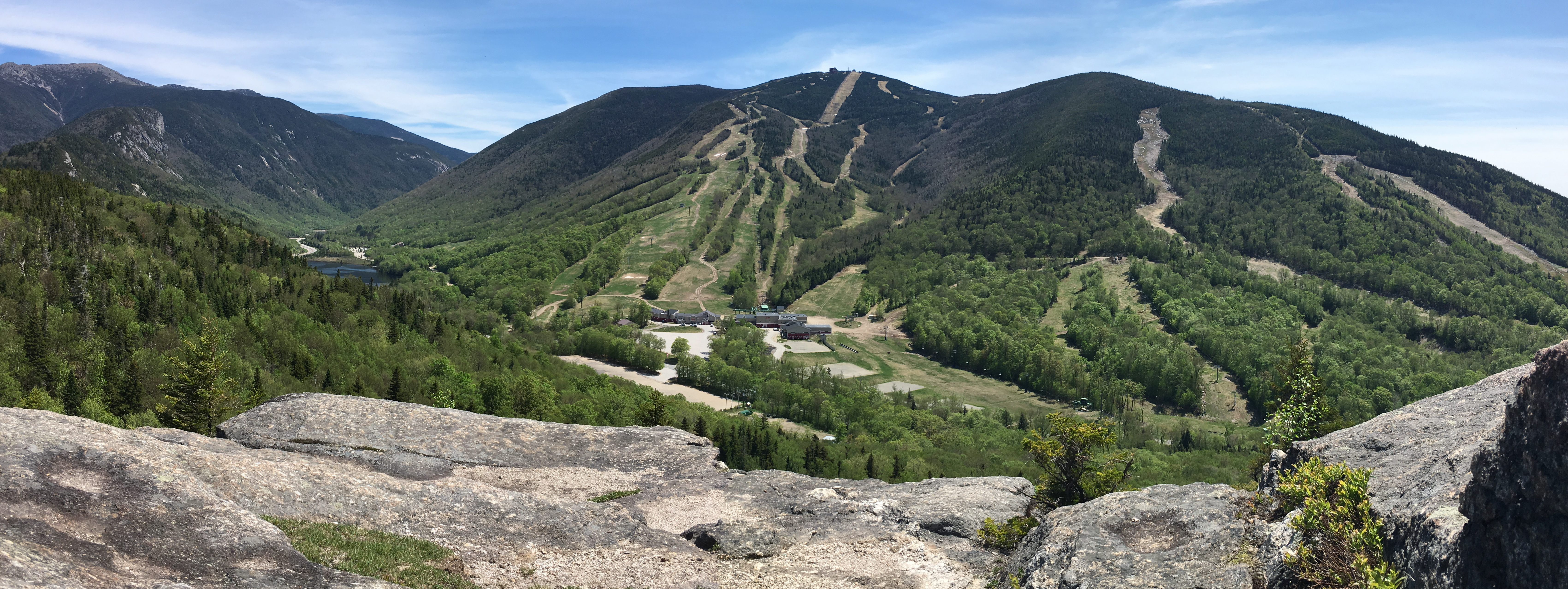 View from the summit of Bald Mountain in the White Mountains of New Hampshire. Cannon Mountain and the Cannon Mountain Ski Area are at center and right. Mount Lafayette and Franconia Notch are at left.